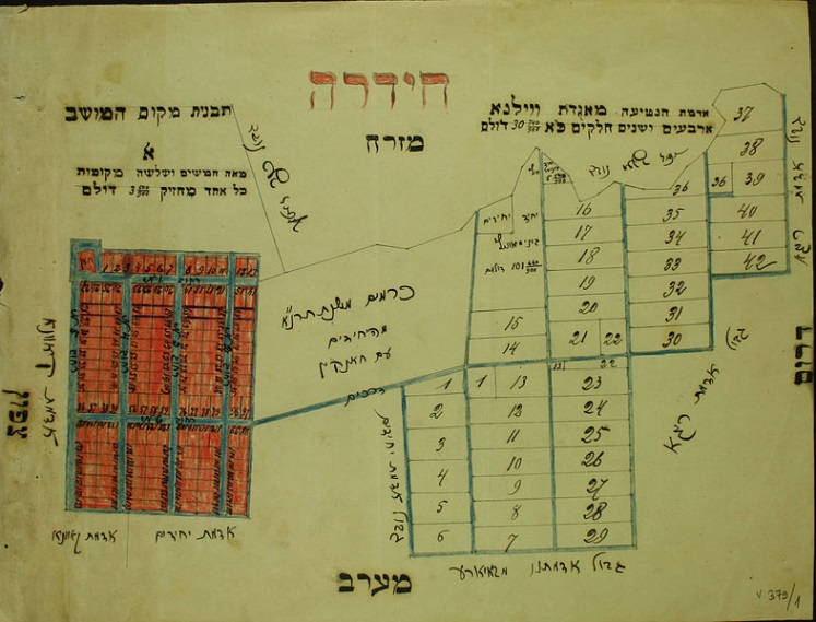 Hadera map sketch